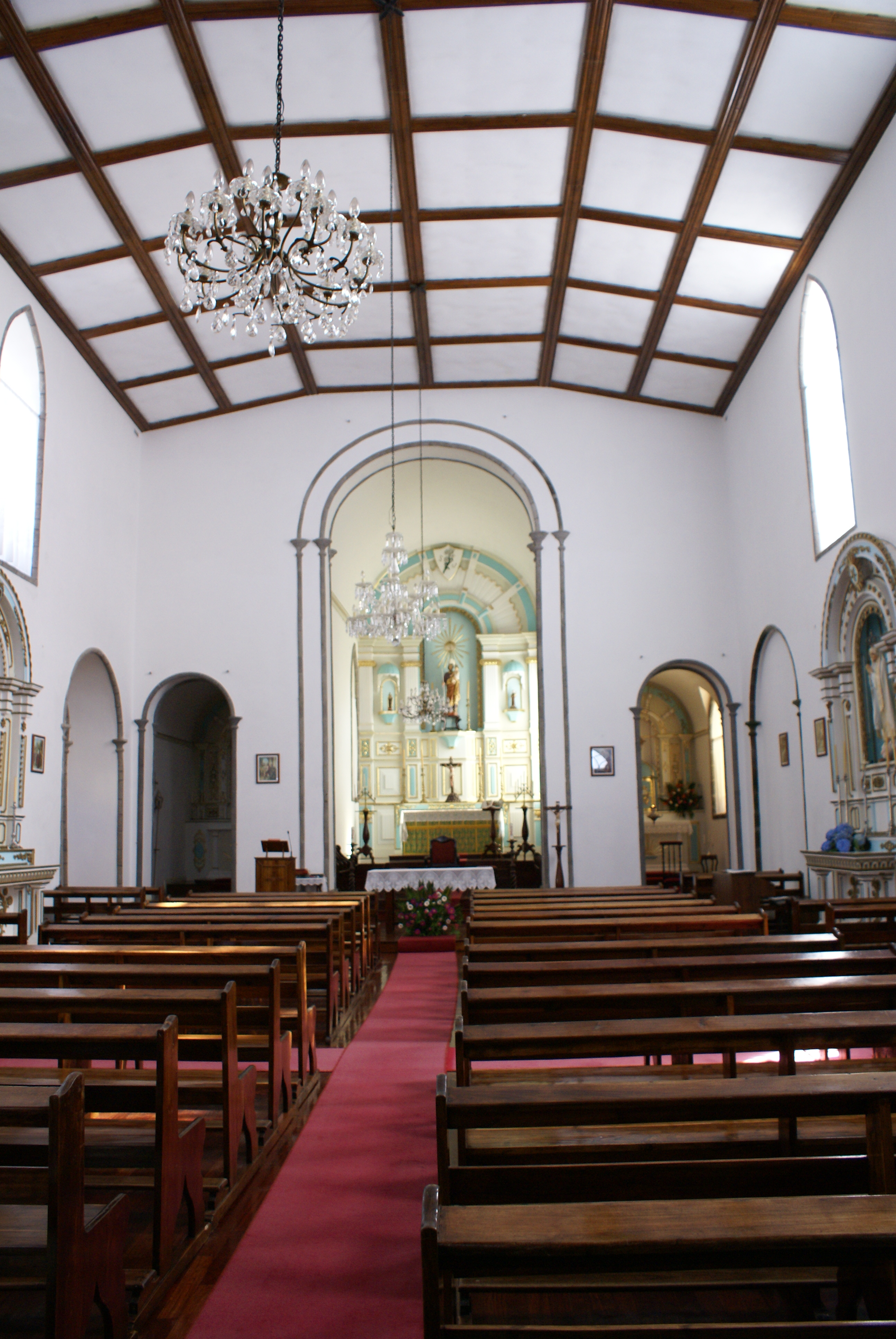 Nave of Church of São José, Salga, Nordeste, São Miguel (Azores), Portugal